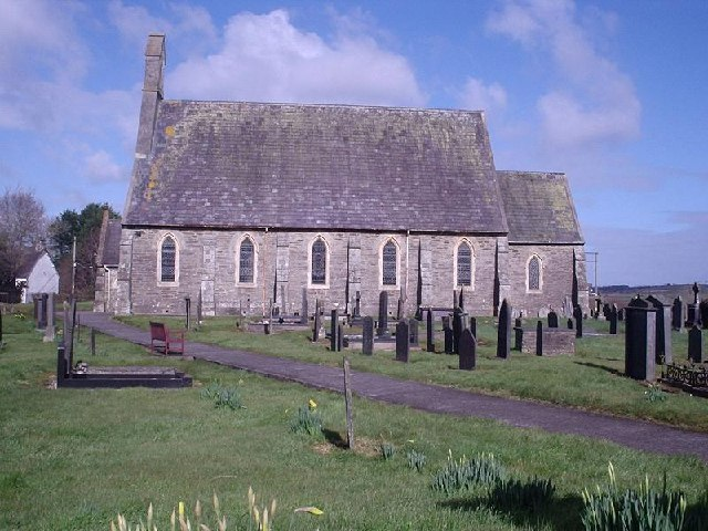 St Celer's parish church, Llangeler, Ceredigion, seen from the south. Built in the 1850s on the site of a Norman church.